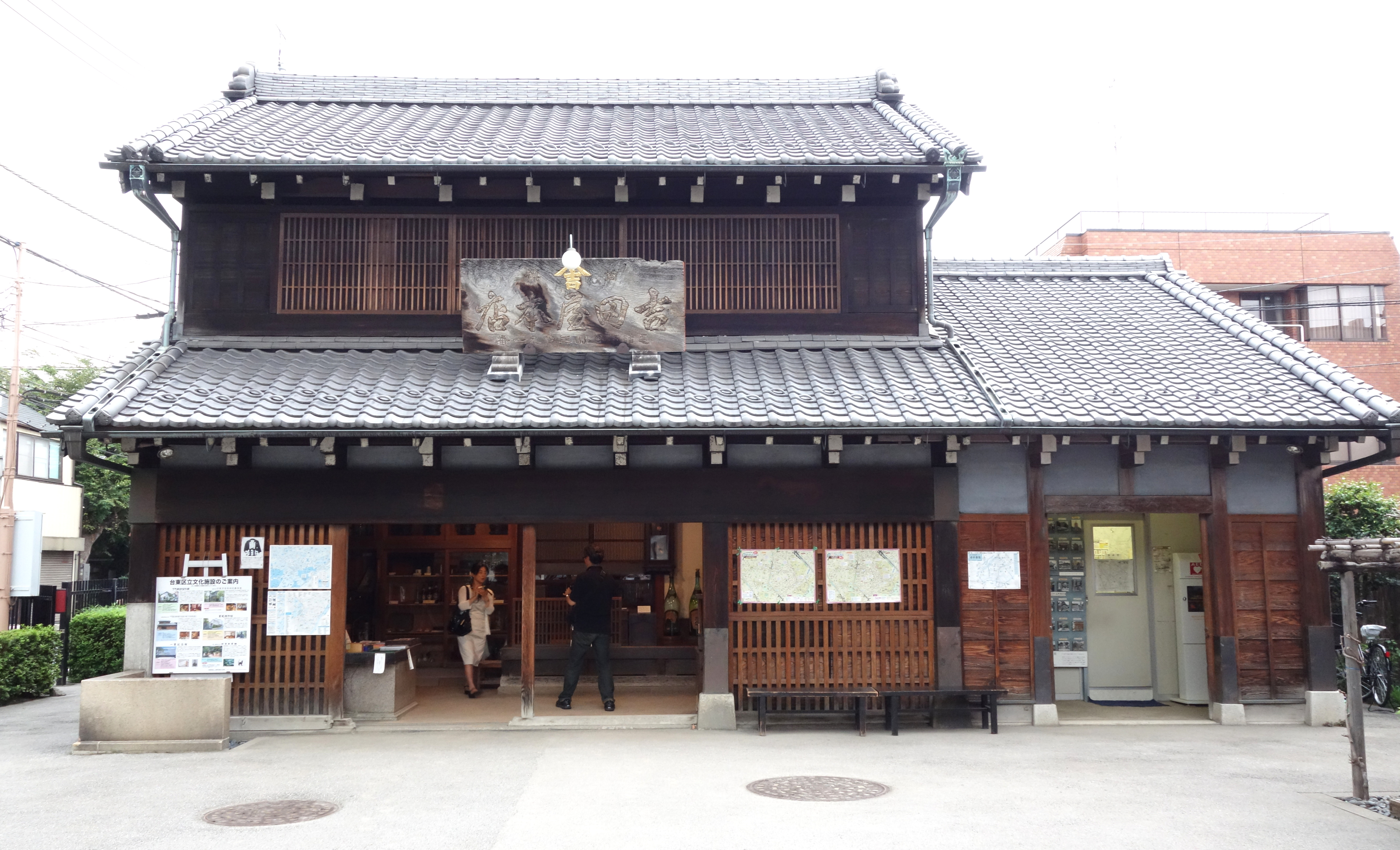 Old Yoshida Sake Store (an annex to Shitamachi Museum) - Taito-ku, Tokyo, Japan. Photography was permitted in this museum without restriction.